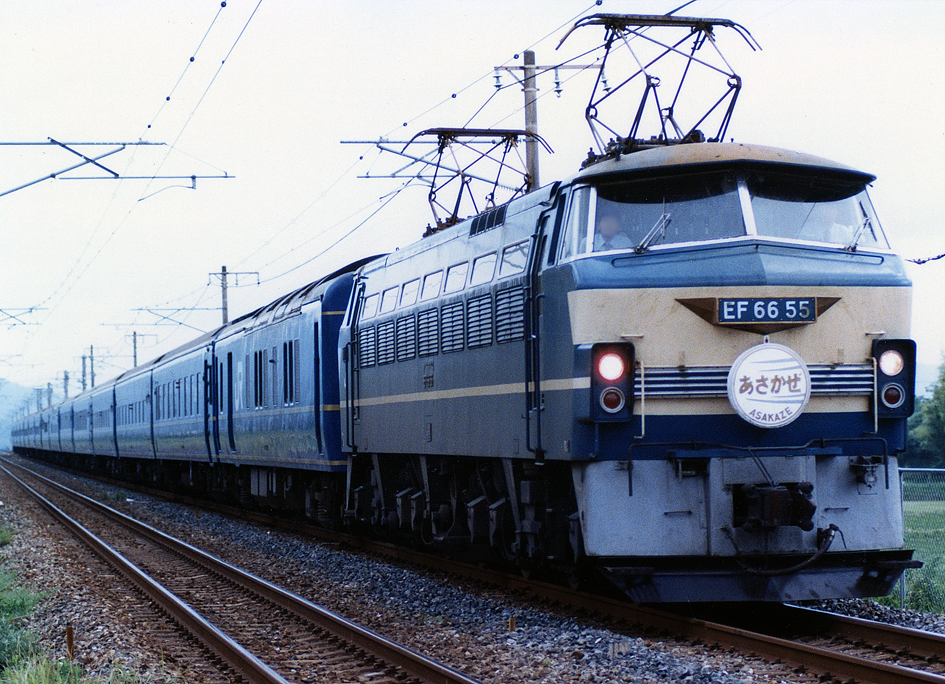 JNR Class EF66 electric locomotive EF66 55 at the head of the Asakaze No. 1 overnight sleeping car service